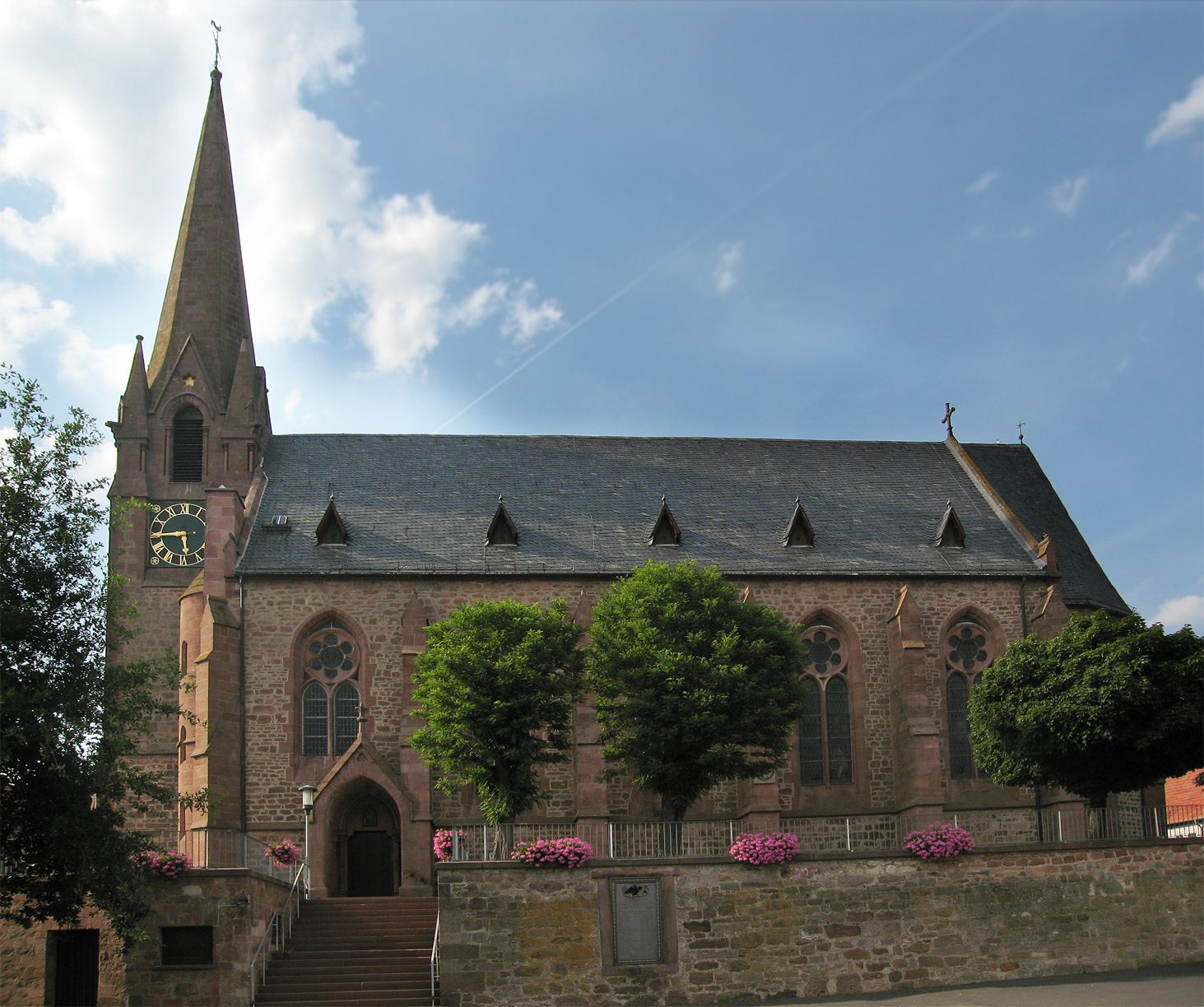 The St. Johannes church in Momberg a village in the area of Neustadt (Hesse)